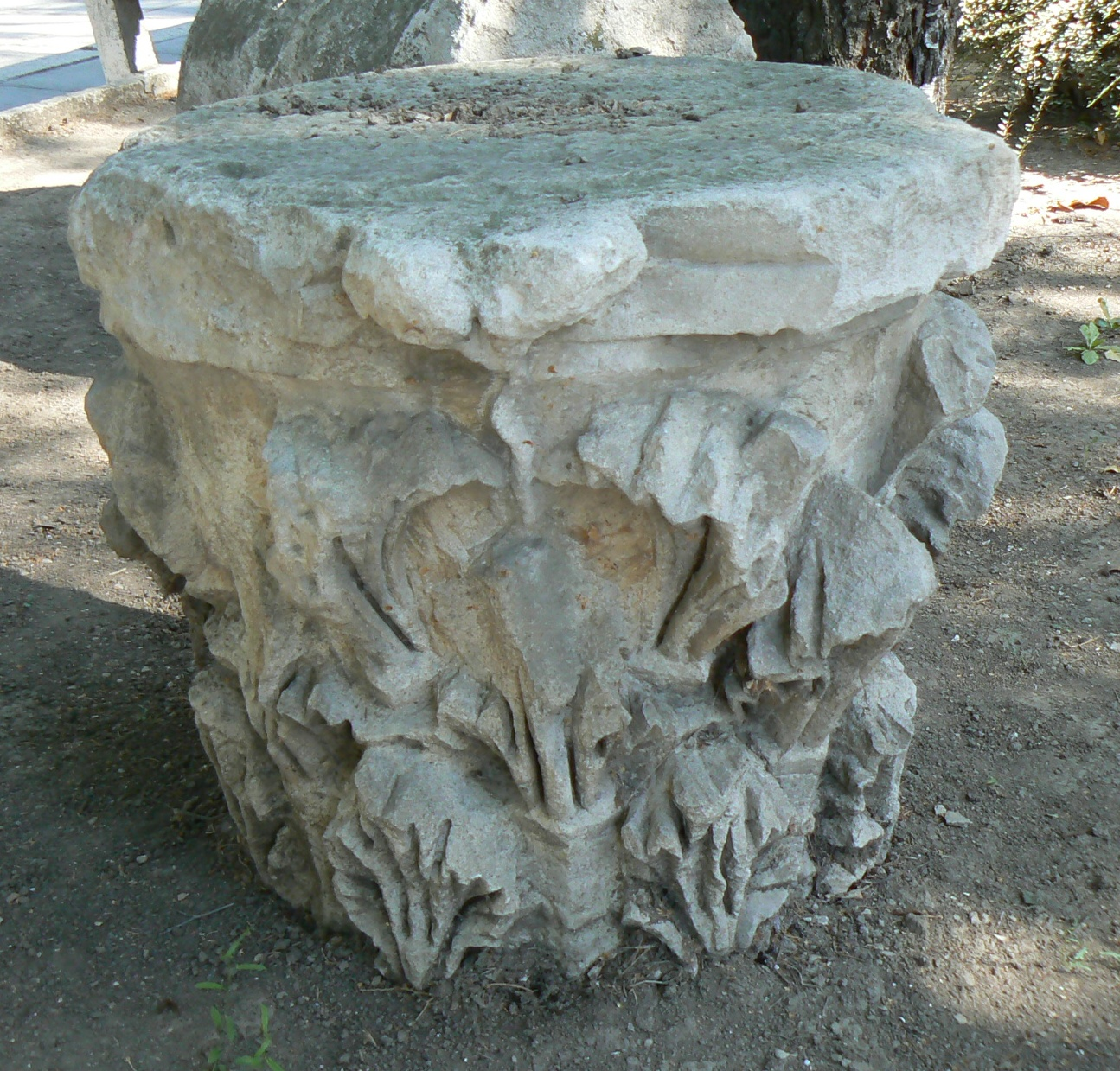 Corinthian capital in Devnya Museum of Mosaics